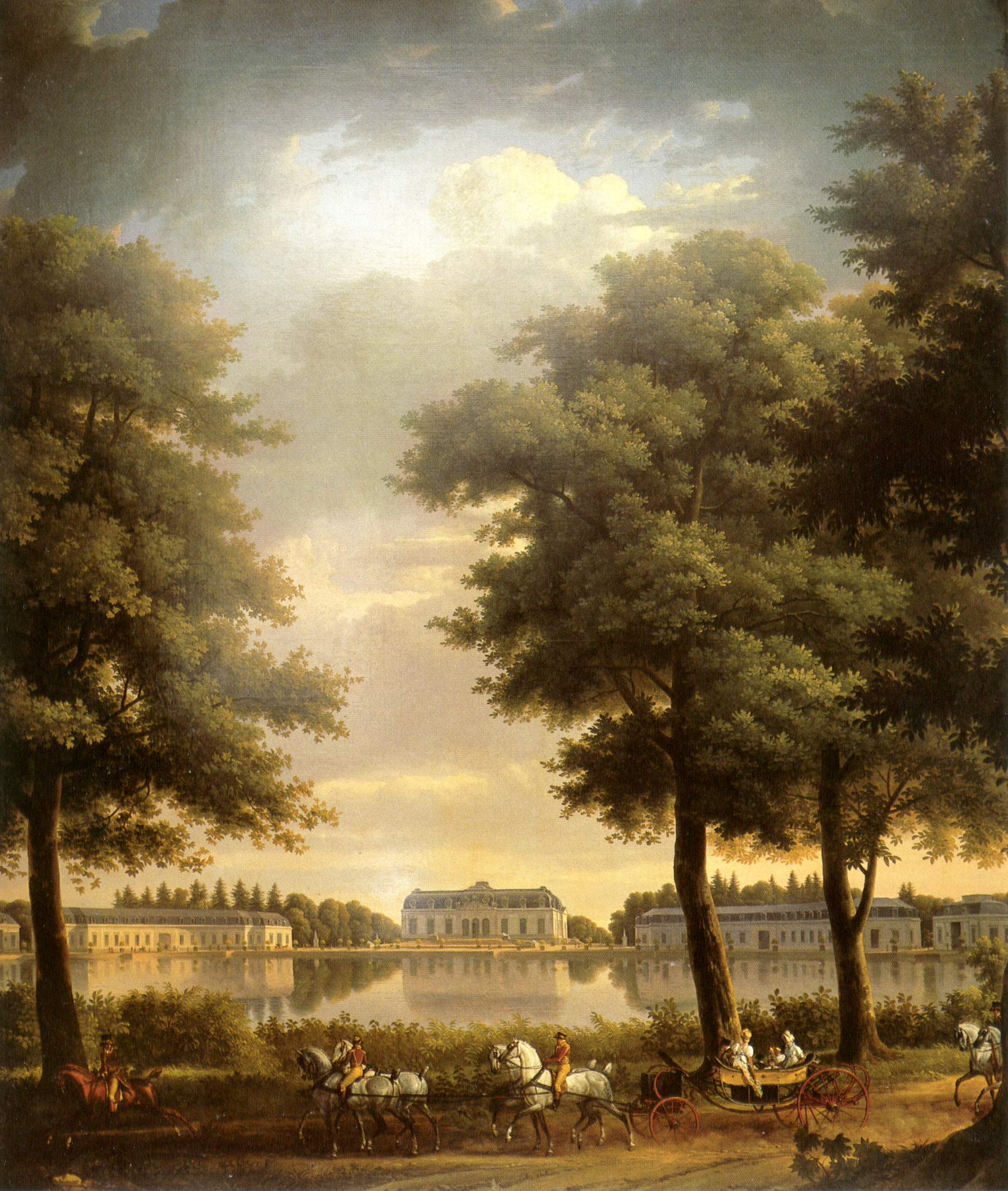 Viev of castle Benrath (Duesseldorf, Germany)